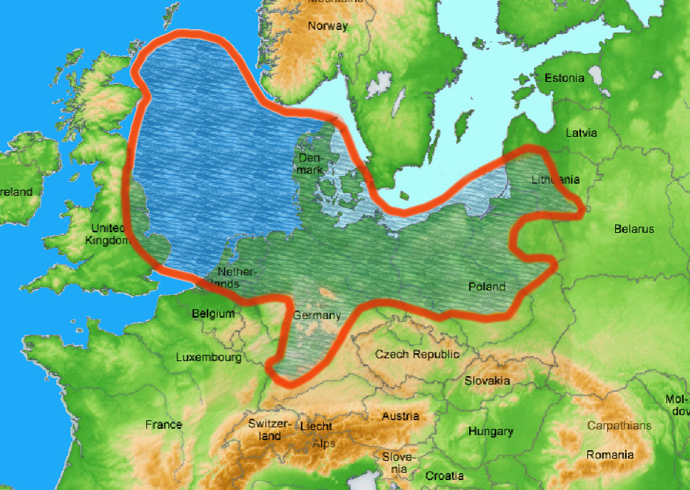 Extension of Zechstein Sea, Central Europe, 255 million years ago